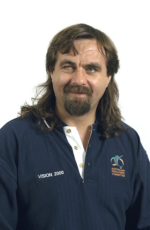 Portrait of Australian judoka Anthony Clarke, 2000 Australian Paralympic Team athlete